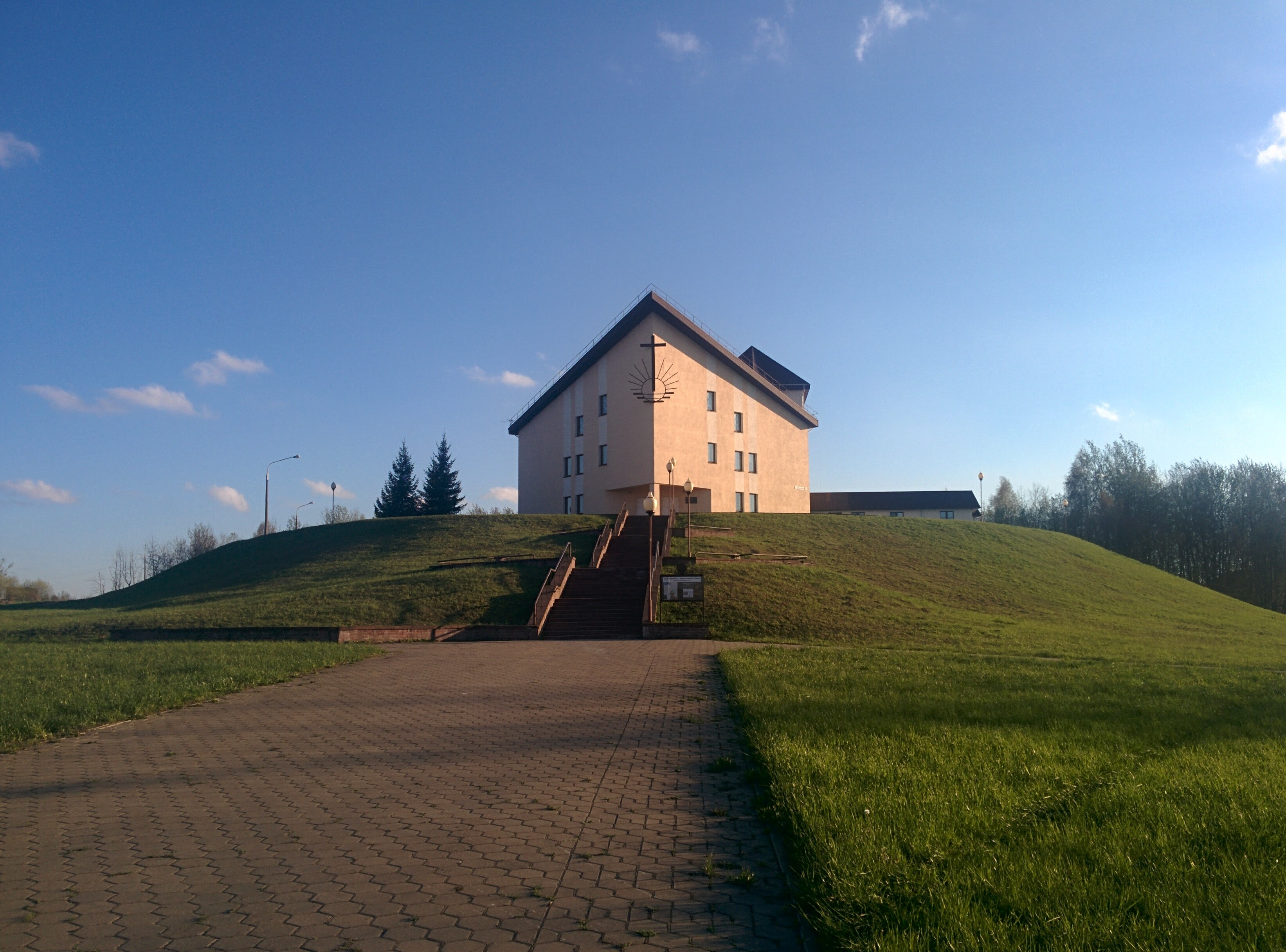 New Apostolic Church in Minsk